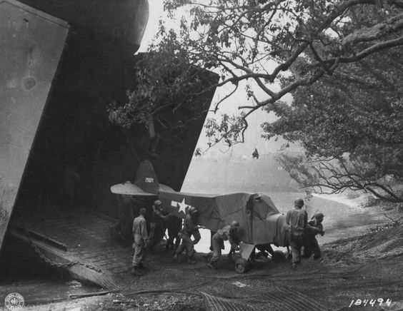 A Piper Cub observation plane arrives at Saidor on 2 January 1944